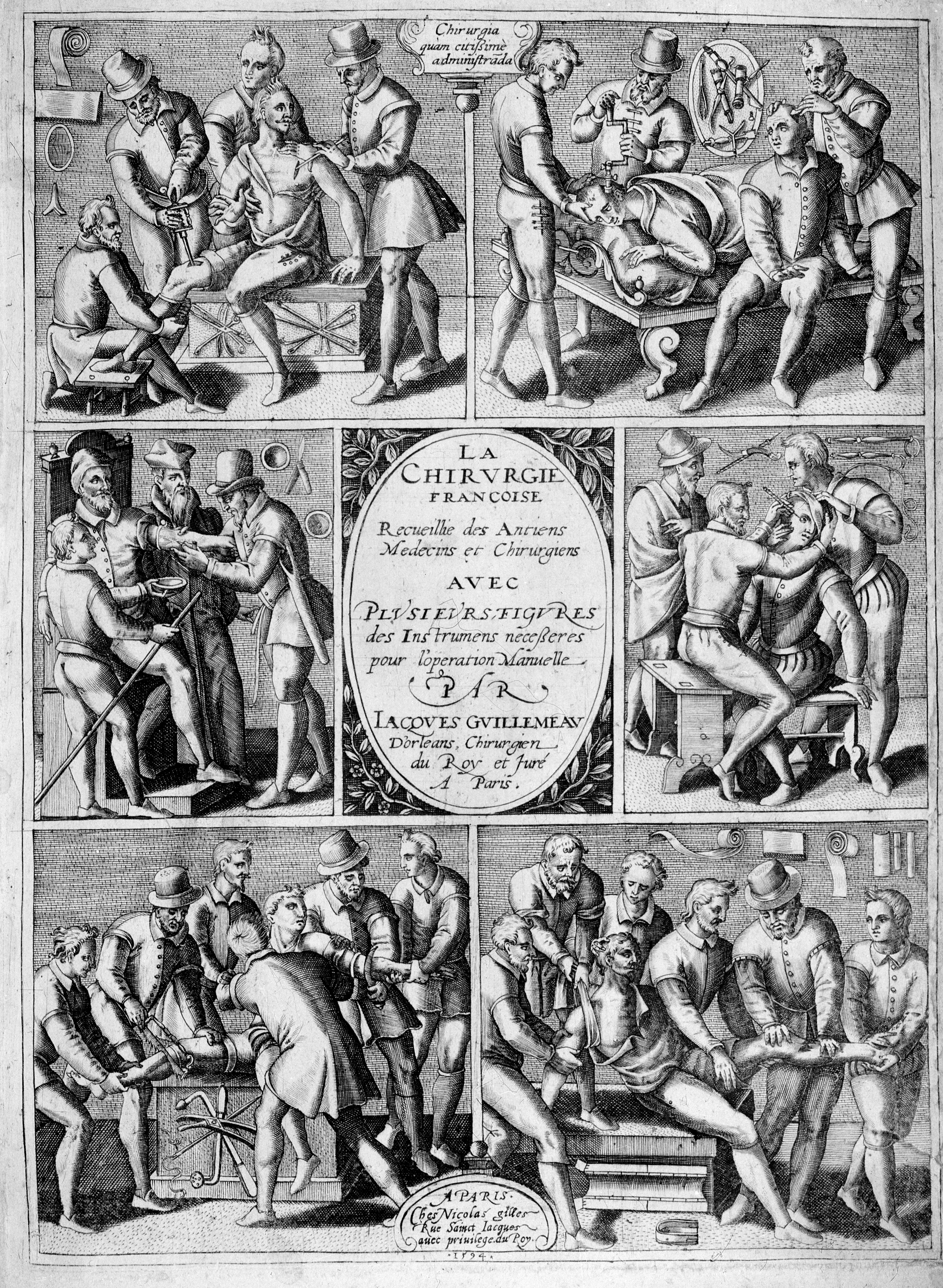 Title page. Rare Books Keywords: Jacques Guillemeau